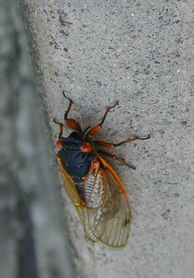 Title: Cicada Climbing Bare Tree Description: Close-up of Brood X (en:2004) cicada (Magicicada septendecim) climbing a tree with a bare trunk in Herndon, Virginia, USA. Comments: Source: Photograph taken on 29 May 2004 by Jeff Q using a Nikon Coolpix 950 digital camera. © 2004 Jeffrey J. Quisenberry.